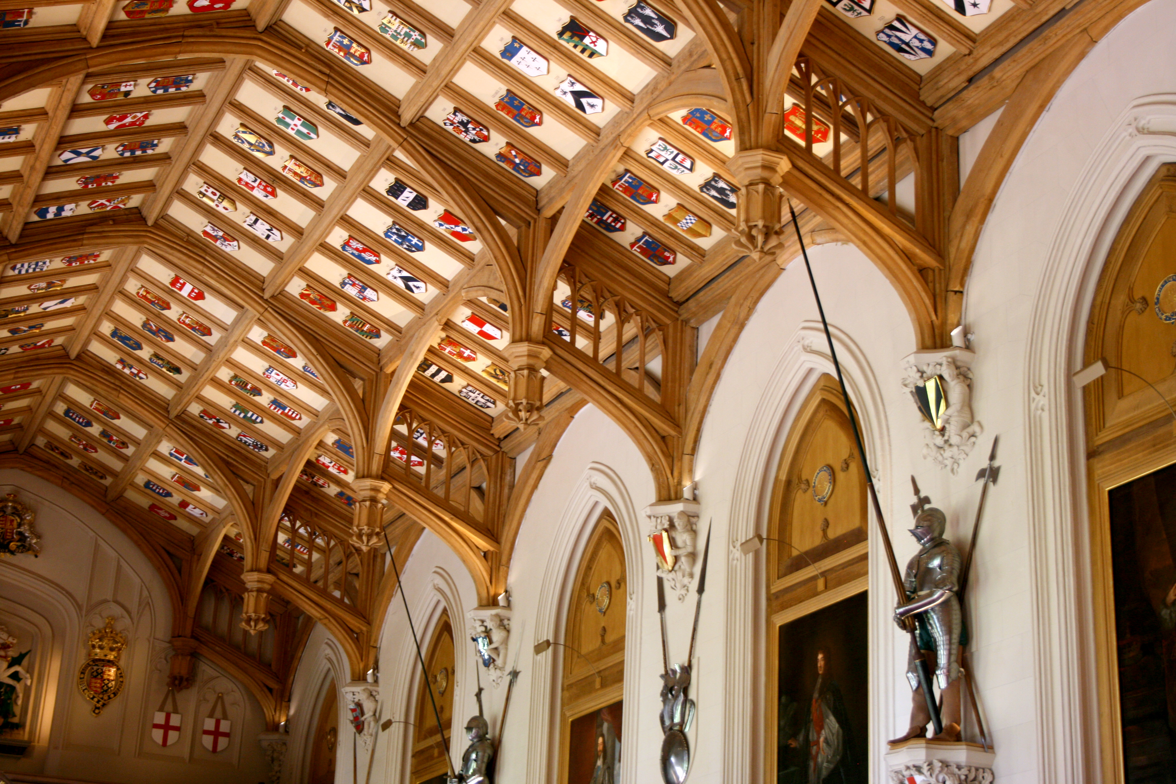 The ceiling of St George's Hall, Windsor Castle.